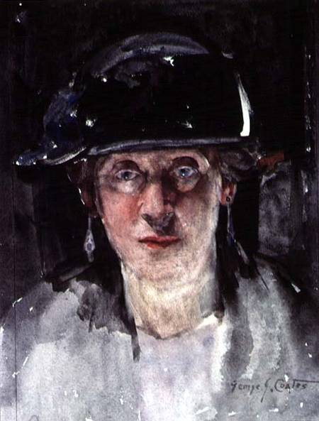 George James Coates - Dora Meeson Coates, Wife of the Artist